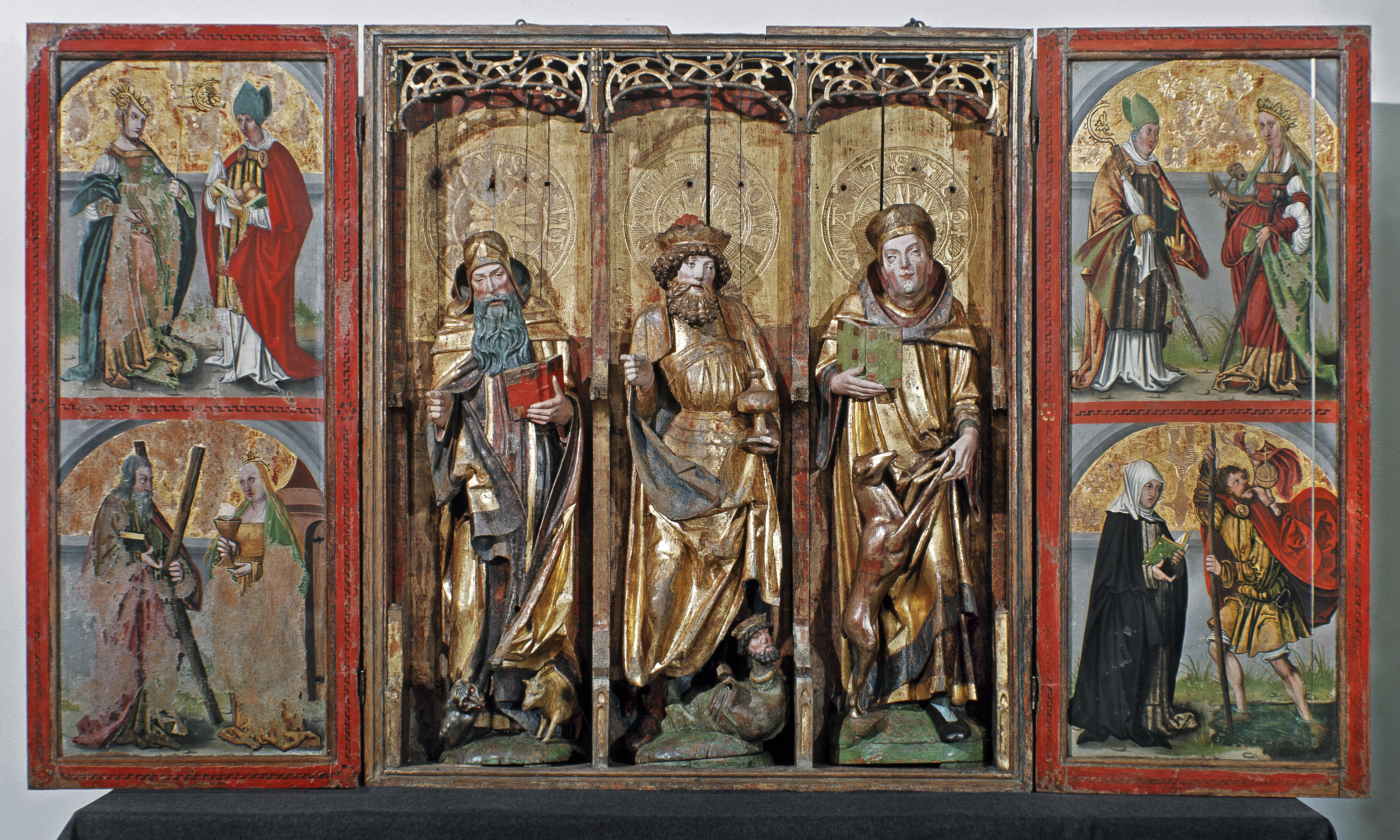 Old altar piece from Kvæfjord church, Norway. It is now stored in Museum of Cultural History, Oslo.